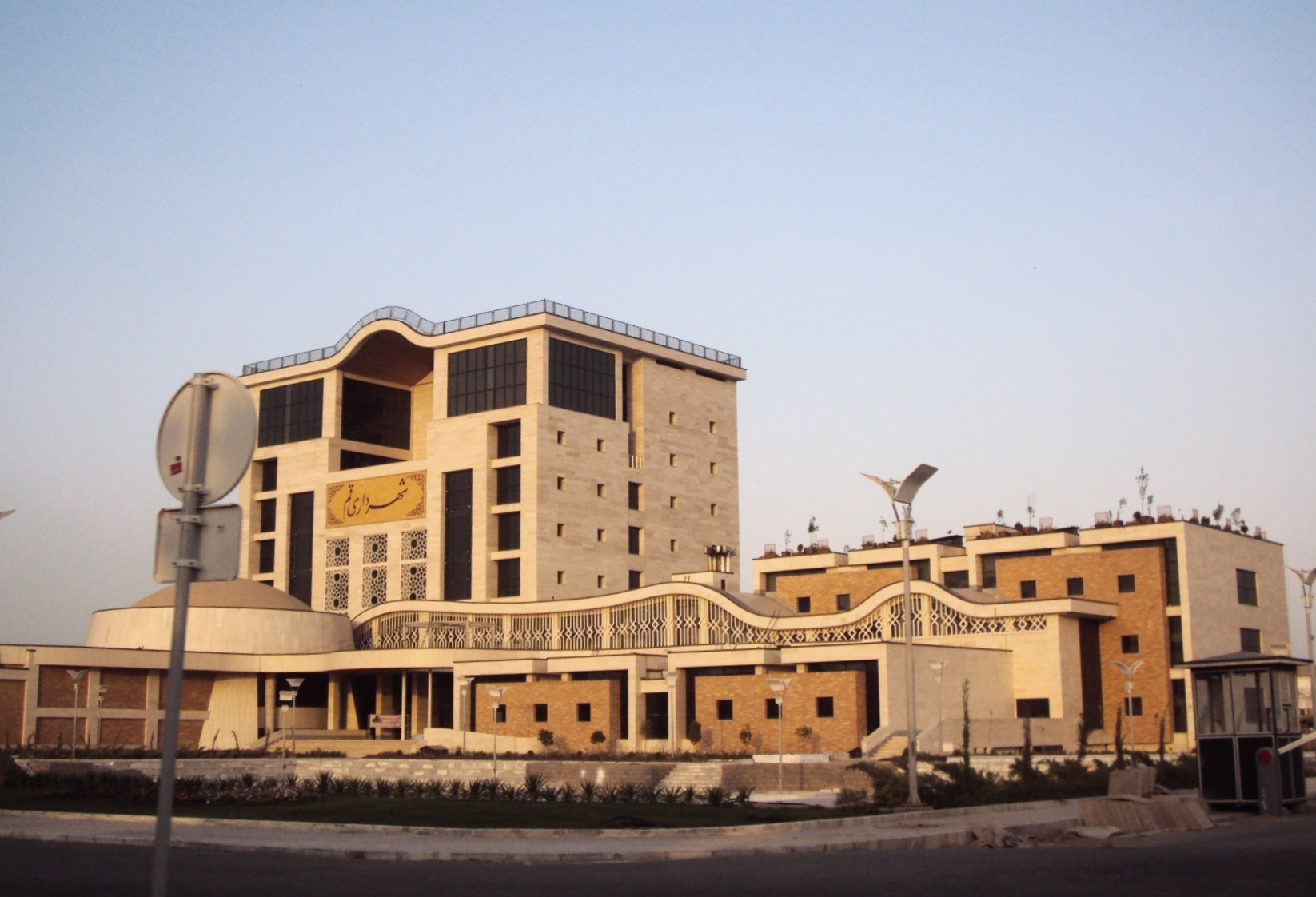 ساختمان شهرداری قم